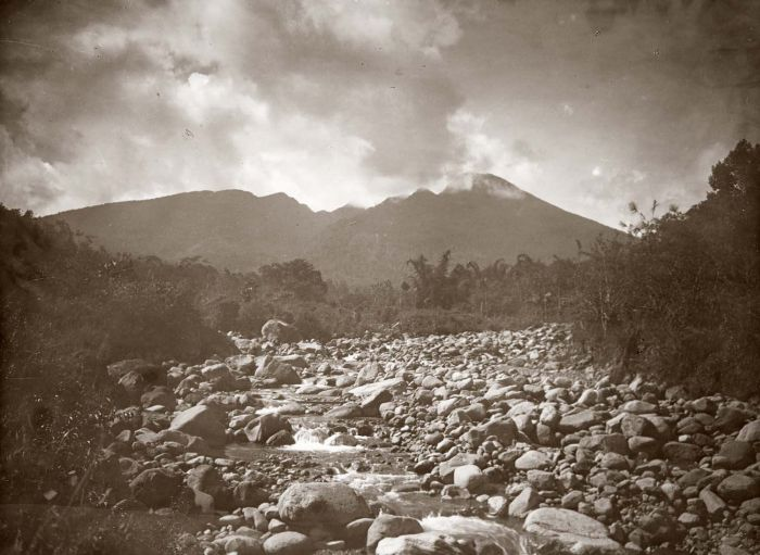 View from a dry and rocky riverbed towards the Salak volcano